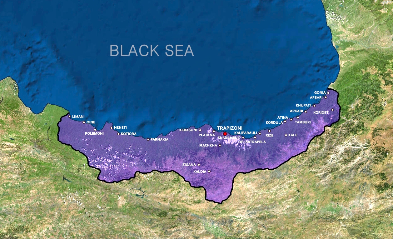 Satellite map of Kartvelian (Georgian) historical province of Lazona